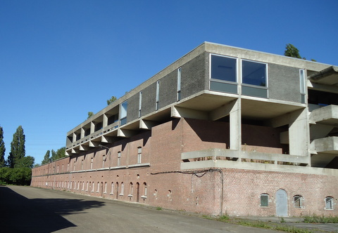 Upper part - Block Operations - Cold war